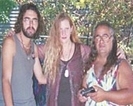 Members of the band SONA: Joe Credit III, Bernadette "Beltana" Holzer, "Papa" Joe Credit.